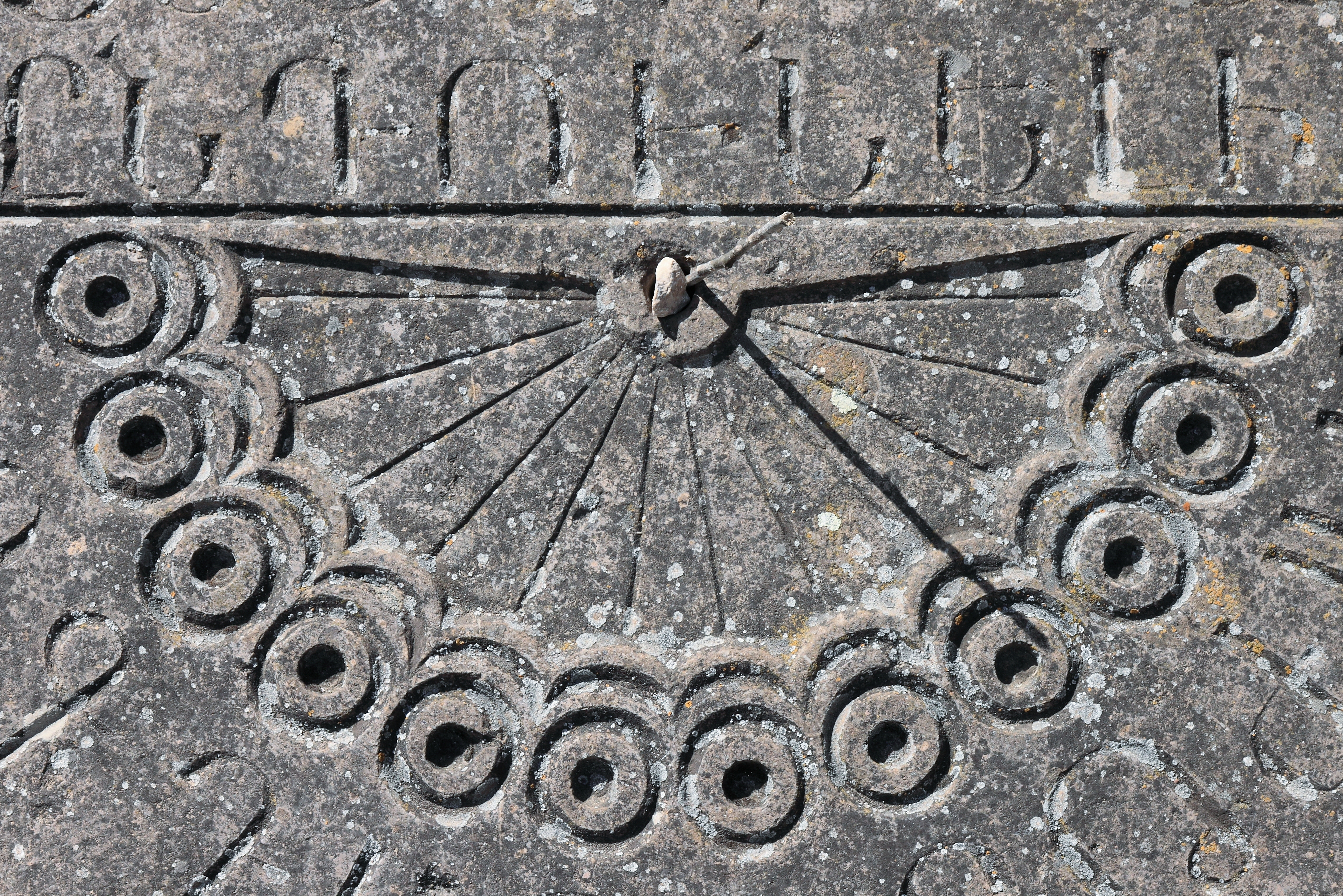 Sundial. Ruins of the Zvartnots Cathedral. Zvartnots, Armavir Province, Armenia.